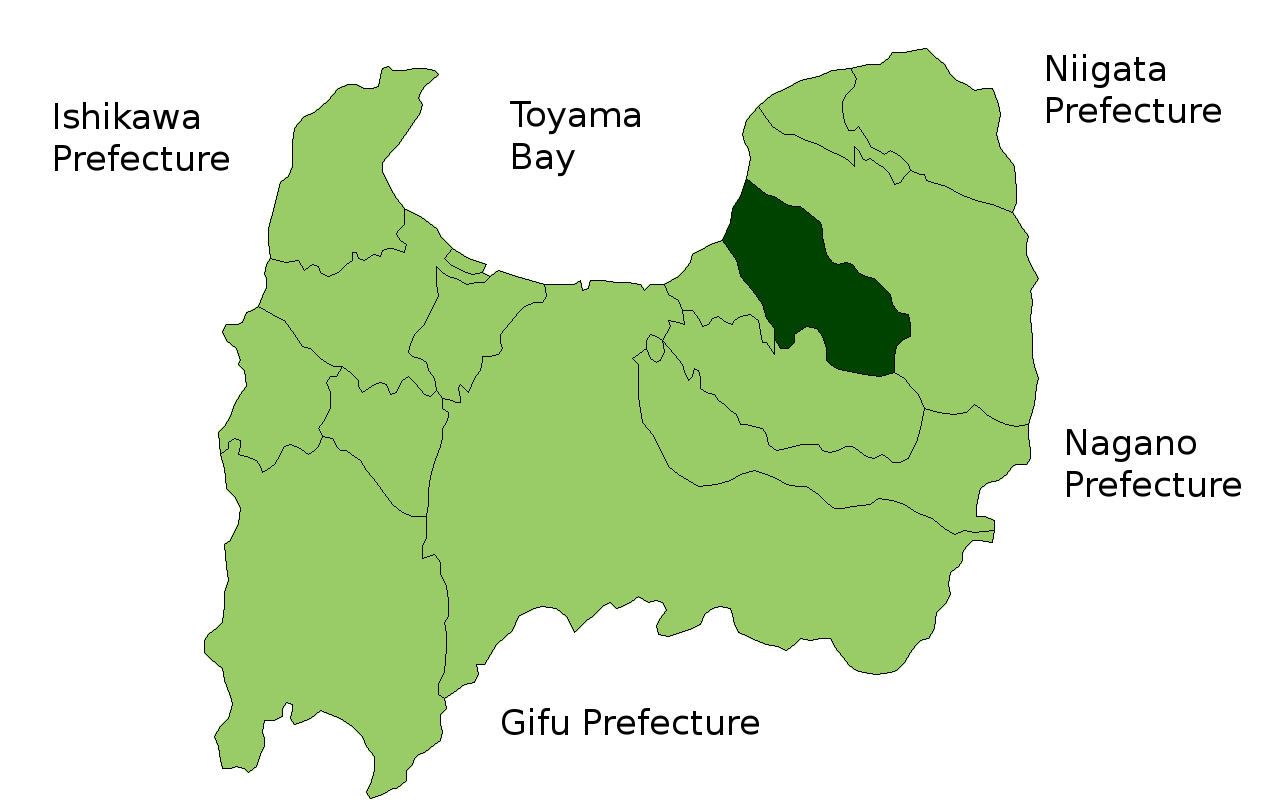 Location Map of Uozu in Toyama Prefecture, Japan